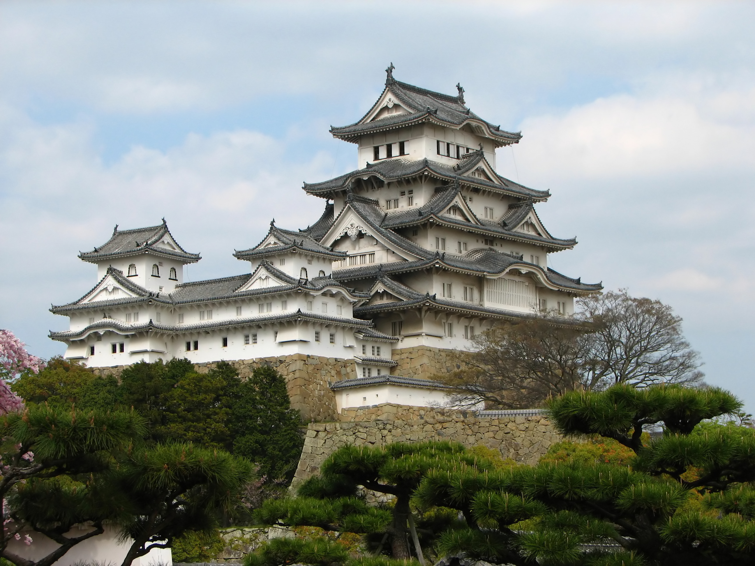 Himeji Castle, Himeji, Hyogo Prefecture, Japan